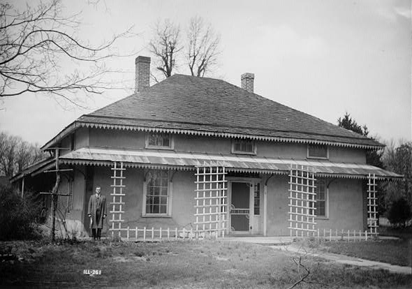 Andrew Cunningham Farm, near Payson, Illinois.